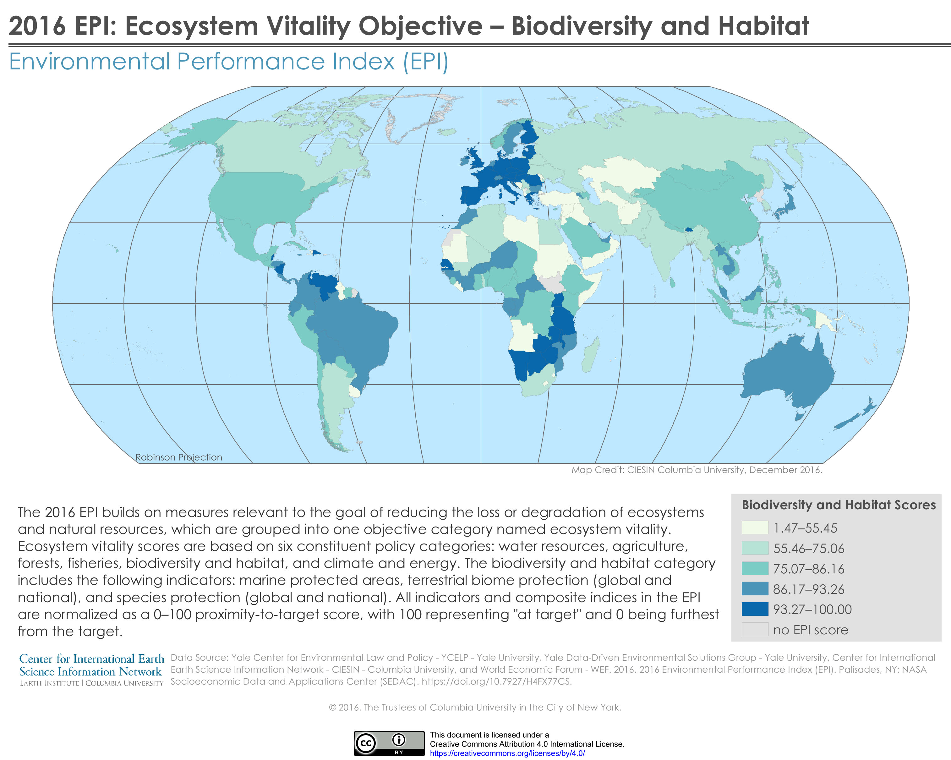 The 2016 EPI builds on measures relevant to the goal of reducing the loss or degradation of ecosystems and natural resources, which are grouped into one objective category named ecosystem vitality. Ecosystem vitality scores are based on six constituent policy categories: water resources, agriculture, forests, fisheries, biodiversity and habitat, and climate and energy. The biodiversity and habitat category includes the following indicators: marine protected areas, terrestrial biome protection (global and national), and species protection (global and national). All indicators and composite indices in the EPI are normalized as a 0–100 proximity-to-target score, with 100 representing "at target" and 0 being furthest from the target. The Environmental Performance Index, 2016 Release (1950-2016) data set is part of the Environmental Performance Index (EPI) collection. See more information at .